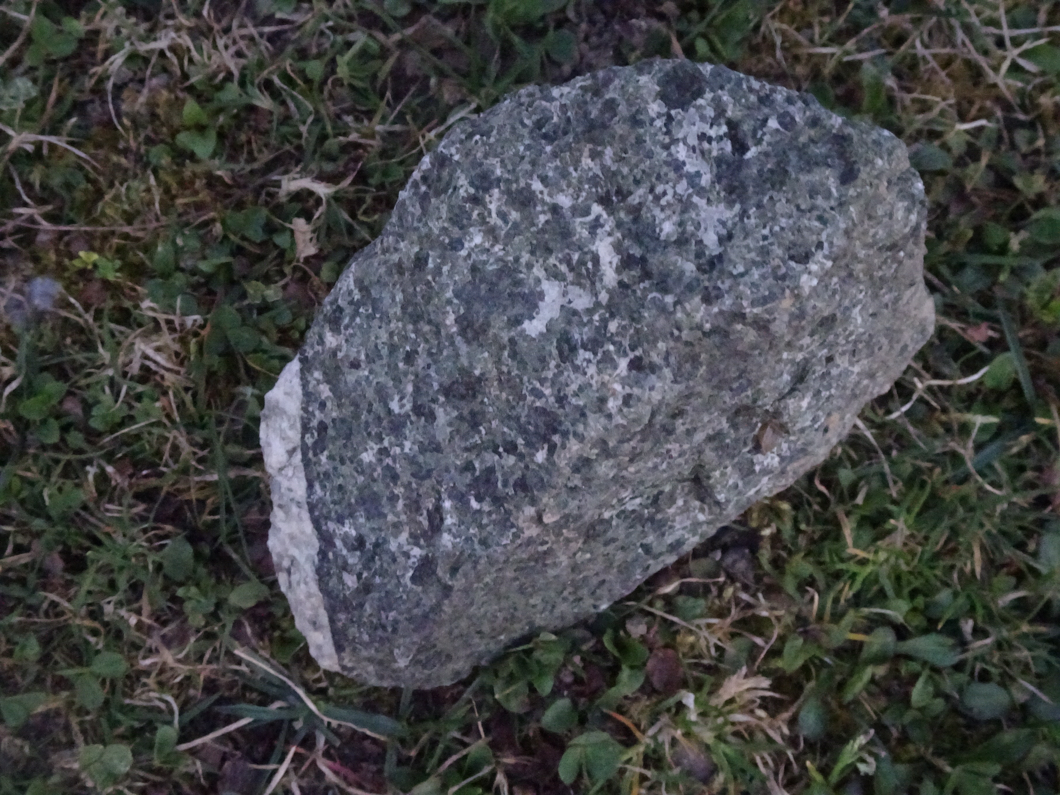 Cizlakite stoneː a melanocratic variety of quartz monzodiorite or monzogabbro consisting of abundant augite with smaller amounts of hornblende and plagioclase with minor alkali feldspar, quartz and biotite. Sample from Cezlak, Slovenia.